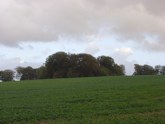 Lewisham Castle The earthworks, the remains of a timber fortification, are in the trees. The site is probably more notable for its 2004 crop circle.